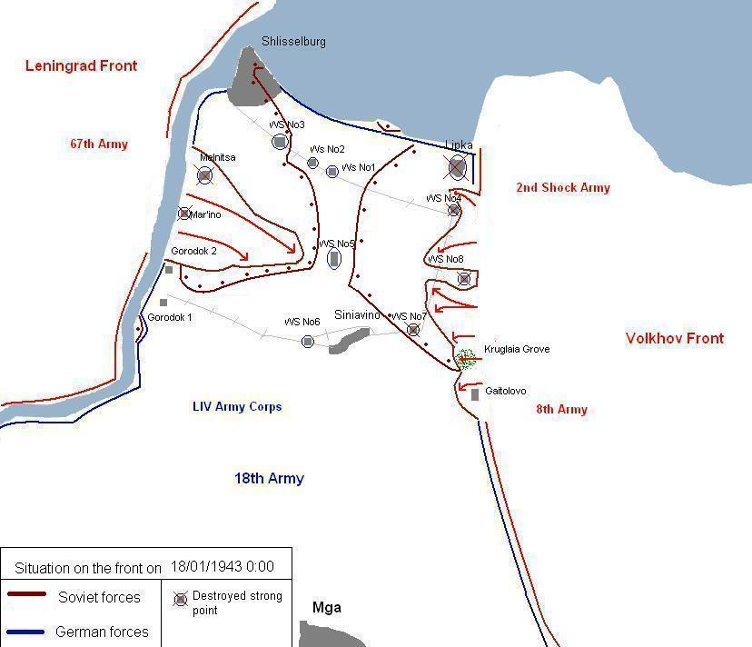 Development of "Iskra" op to the January 18 The information of troops positions and advance based on Glantz (2004) and Glantz (2009).